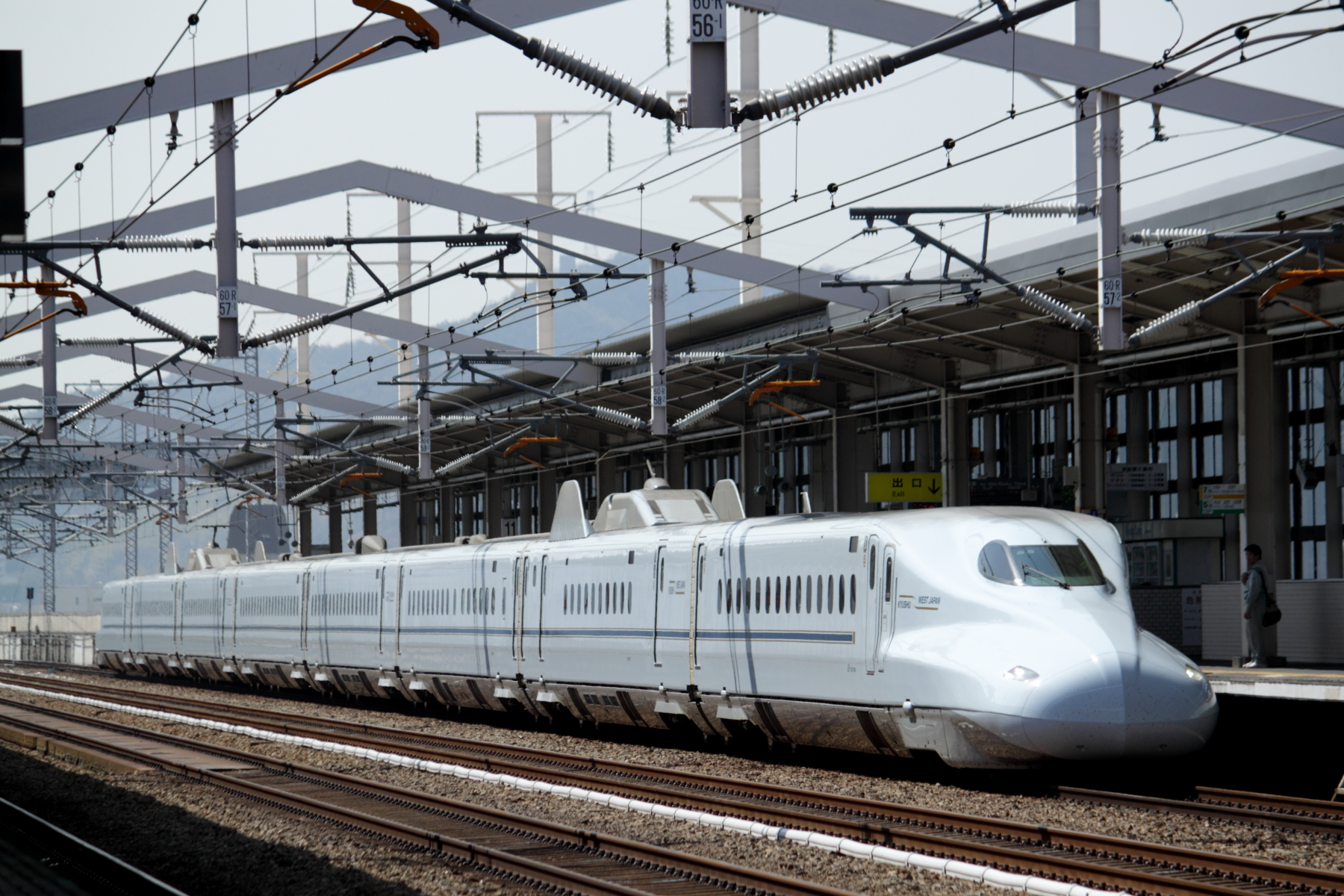 JR West N700-7000 series shinkansen set S5 at Himeji station on Sakura 558 service